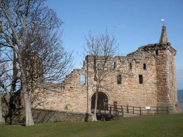 St. Andrews Castle The castle was built for the Bishop of St Andrews and figured prominently in the religious wars of the 16th century when Cardinal David Beaton was murdered and his body hung from the castle walls.